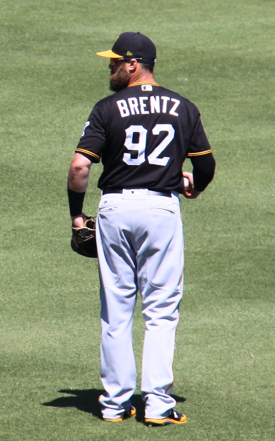 Chris Bostick and Bryce Brentz in the outfield for the Pittsburgh Pirates during a spring training game in Tampa, Florida in March 2018.